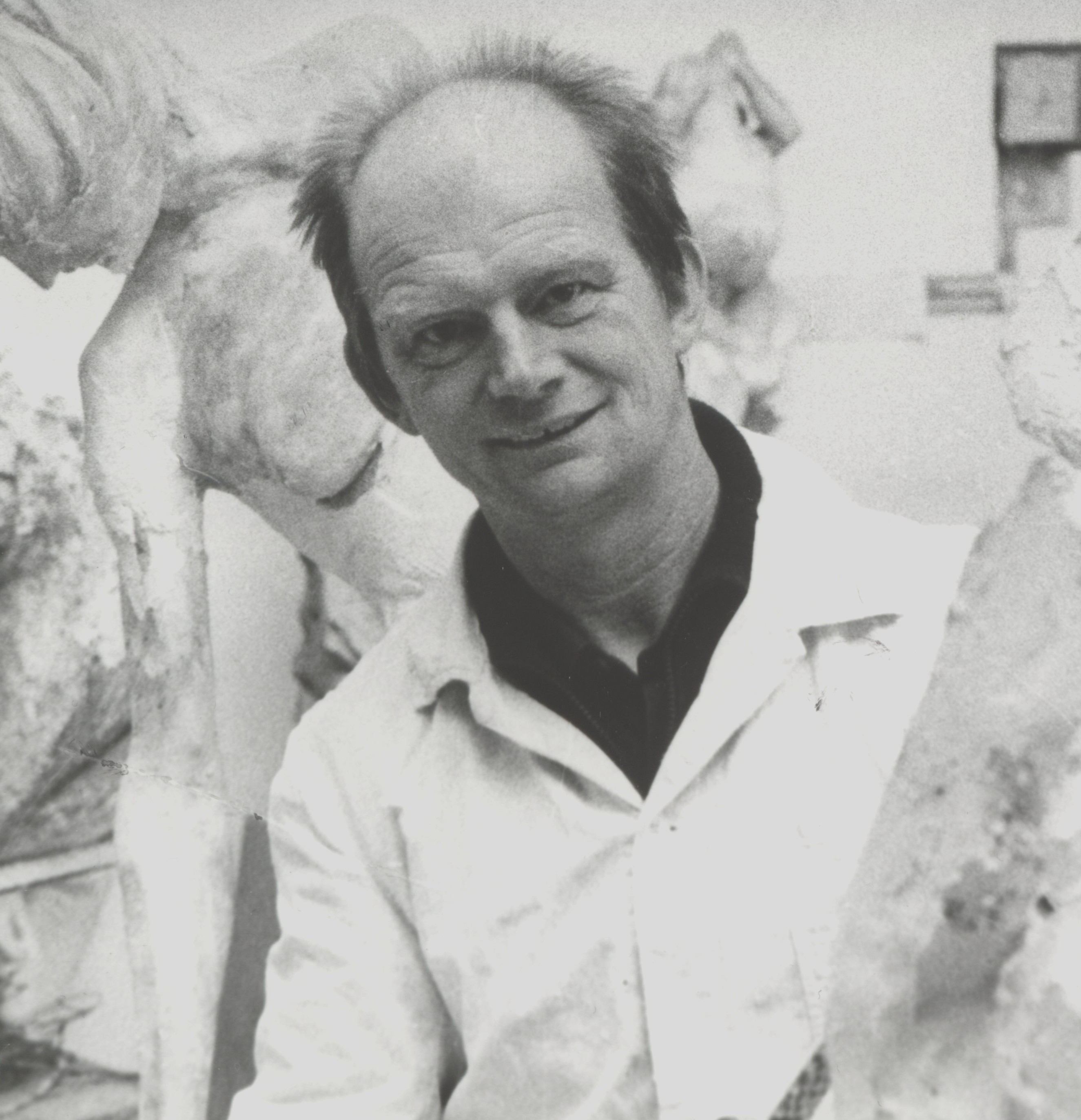 Mr. Seemann in young years